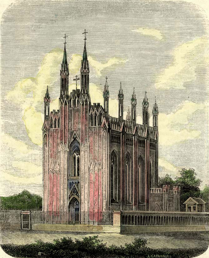 Catholic Church of St. Mary in Sarja